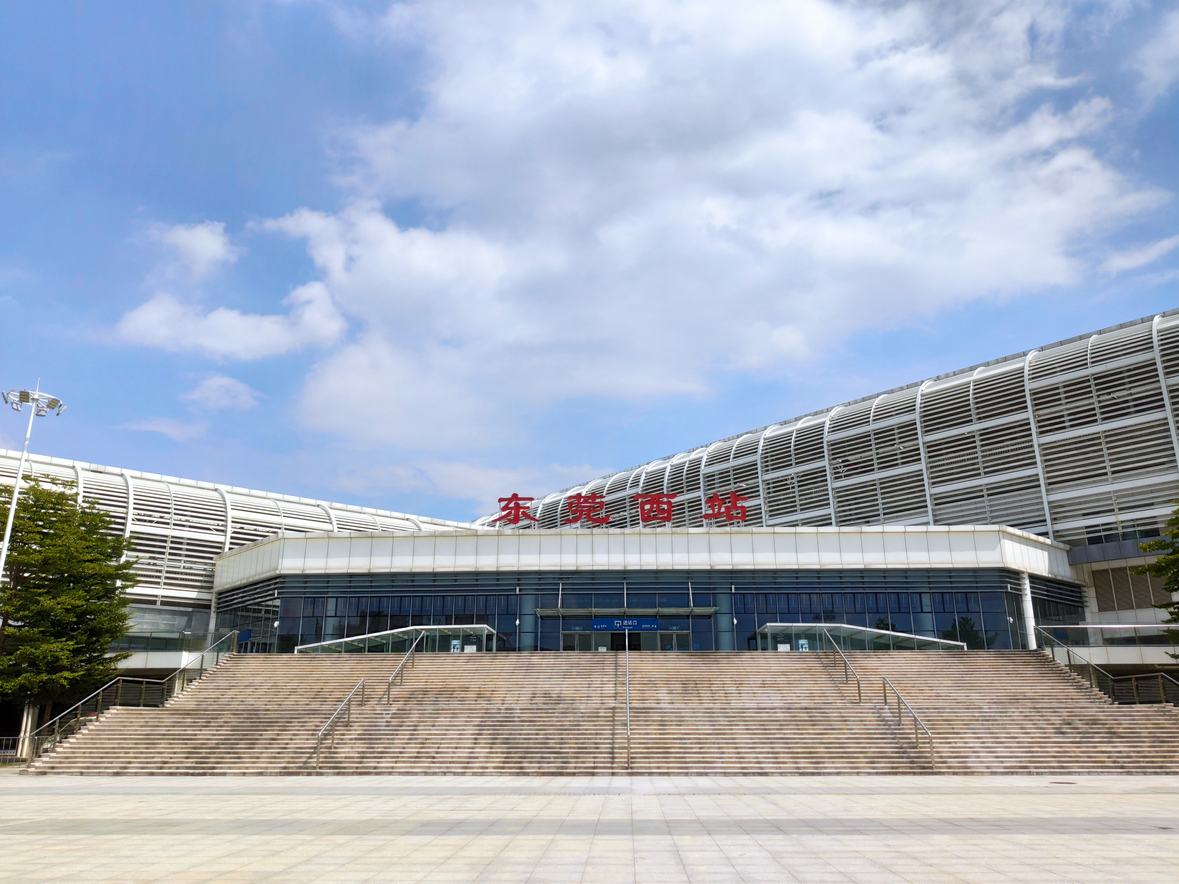 东莞西站站房